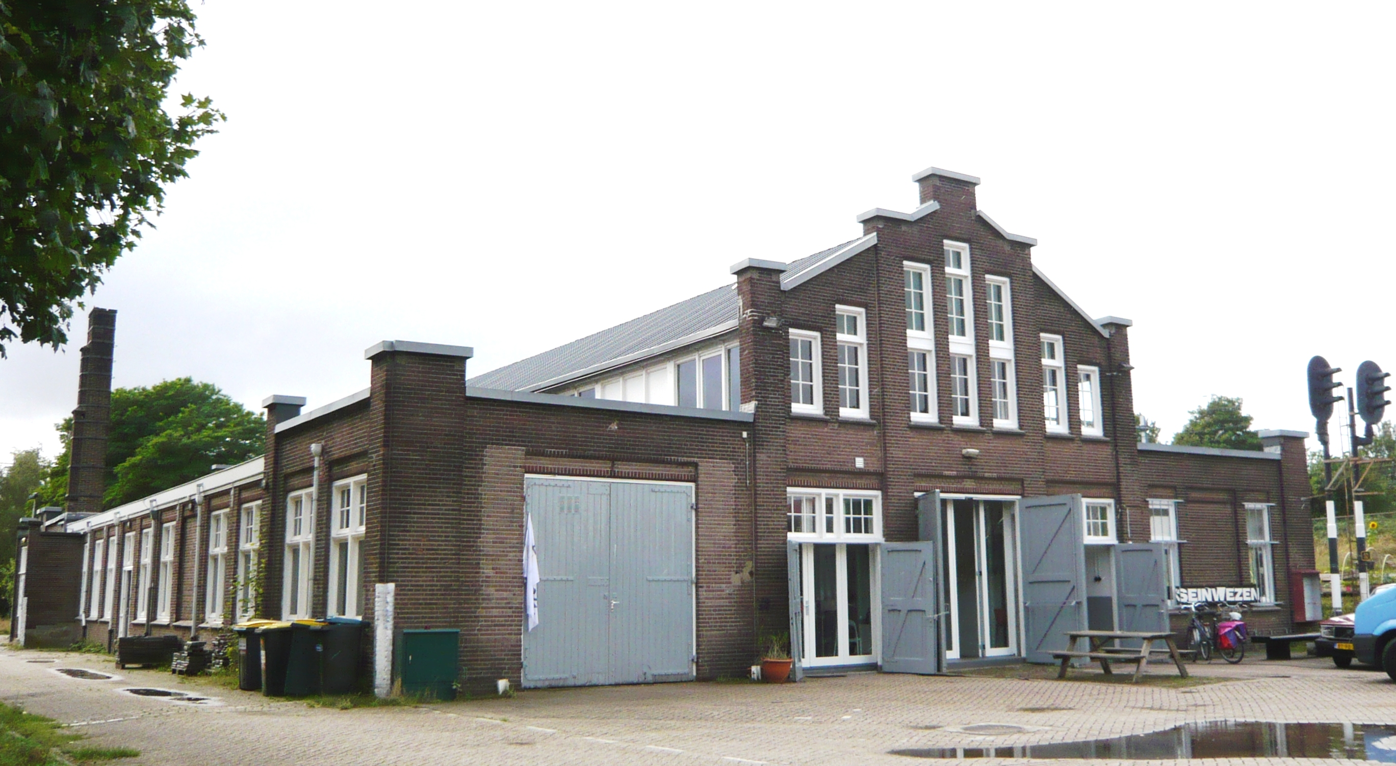 Former main offices of the division in charge of signage for the Hollandse IJzeren Spoorweg Maatschappij on Kinderhuissingel 1H. Later this became a department of the Dutch Railway company called Werkspoor, and still later Pro Rail. Today in private hands, but located on terrein belonging to Pro Rail.